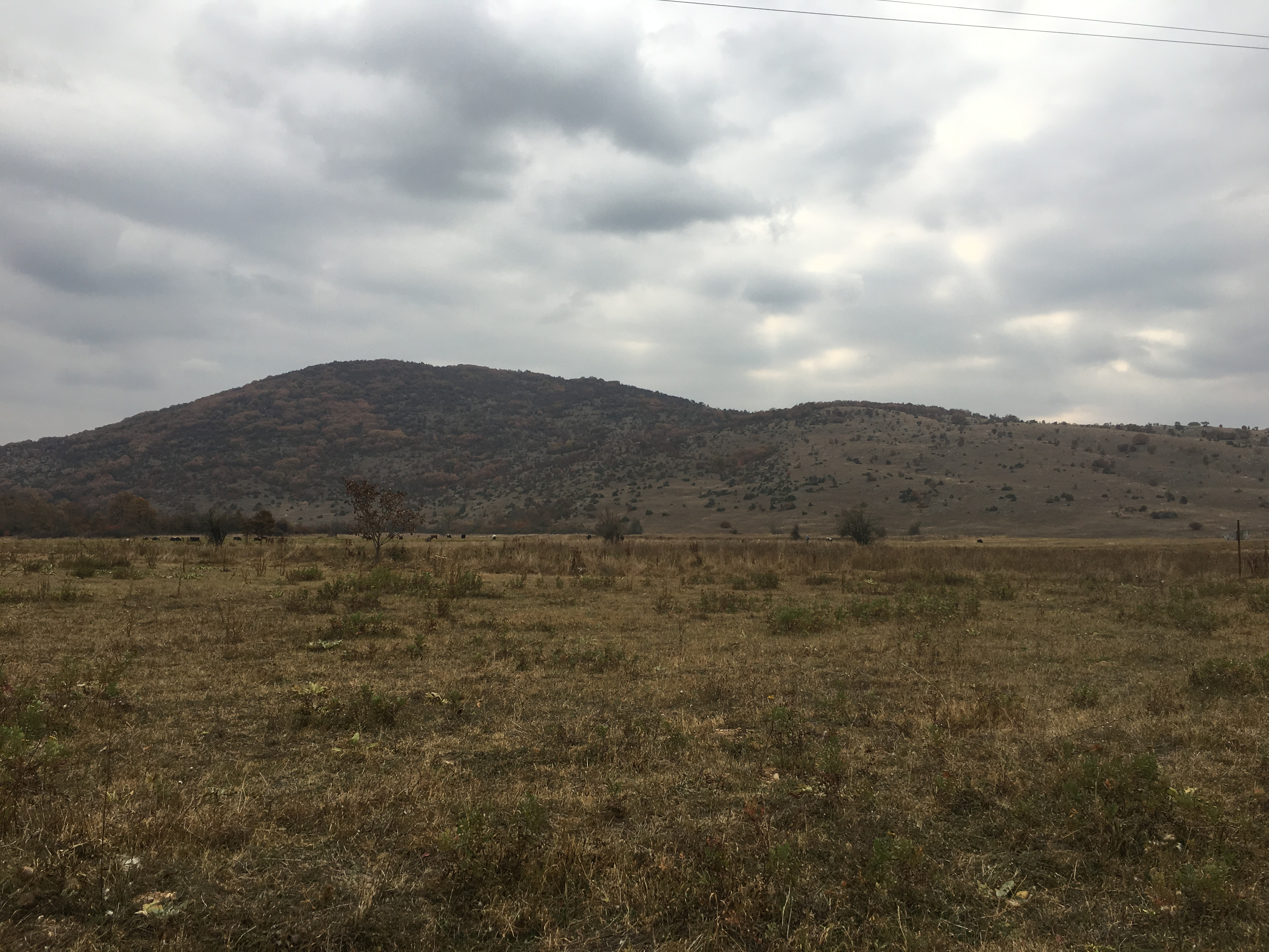 Wikiexpedition to Kopačka